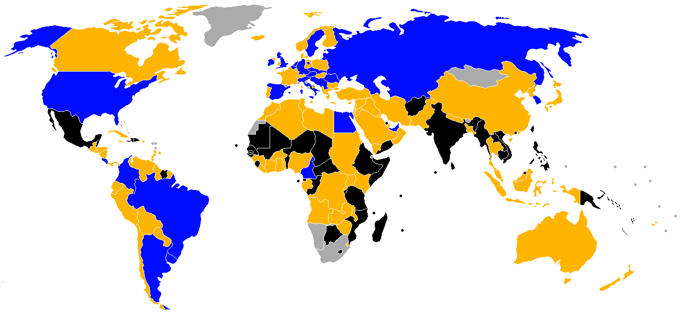 Status of countries with respect to 1990 FIFA World Cup: Qualified for World Cup finals Failed to qualify for World Cup finals Did not enter World Cup Not an associate member of FIFA